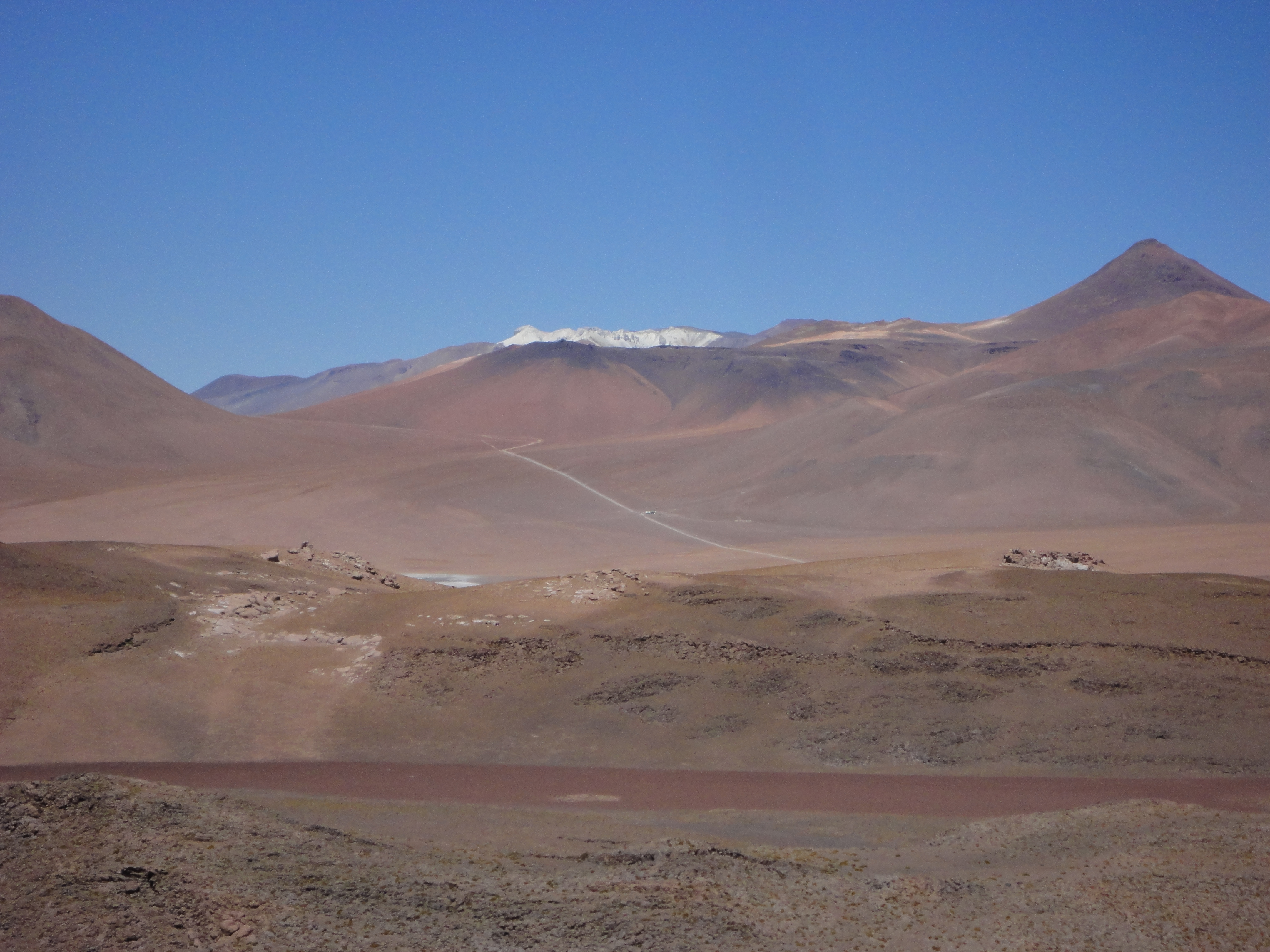 Km 299,8 Ruta 23-CH. El Laco, San Pedro de Atacama, Chile.